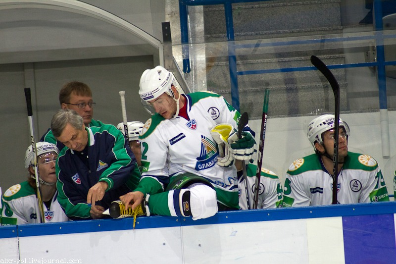 Salavat Ulaev Ufa forward Sergei Zinovjev during KHL game against Amur Khabarovsk on September 23, 2011. From left Vladislav Kartayev (#98), Sergei Zinovyev (#42), Richard Stehlik (#75).